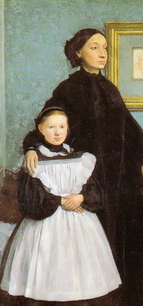 Degas, Bellelli Family, second detail